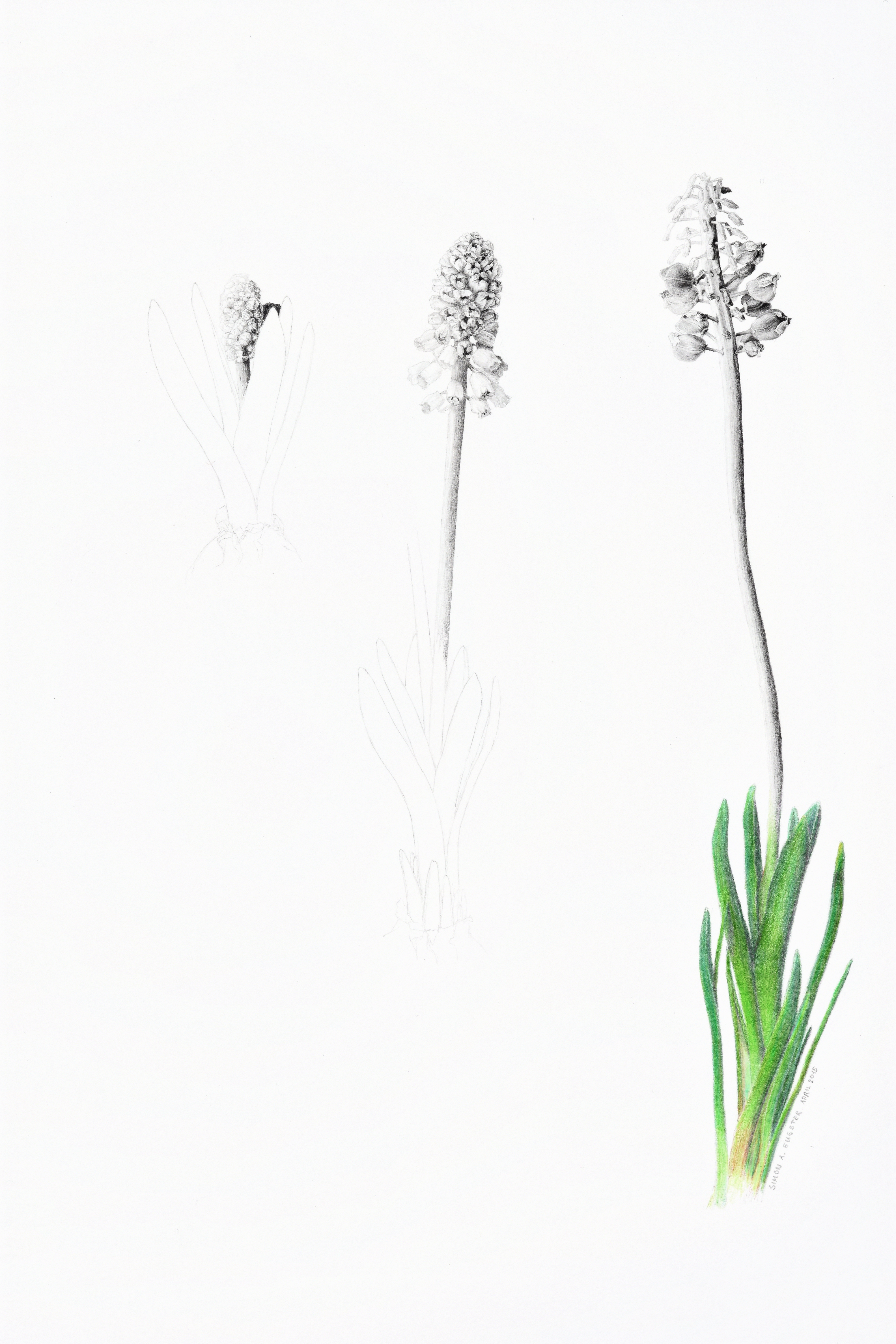 Botanical painting of Muscari armeniacum showing different states of the same inflorescence. Drawn on Bristol Drawing Board (250 g/m²) with Faber Castell pencils and coloured pencils, in original size. The rightmost plant is 19 cm tall.